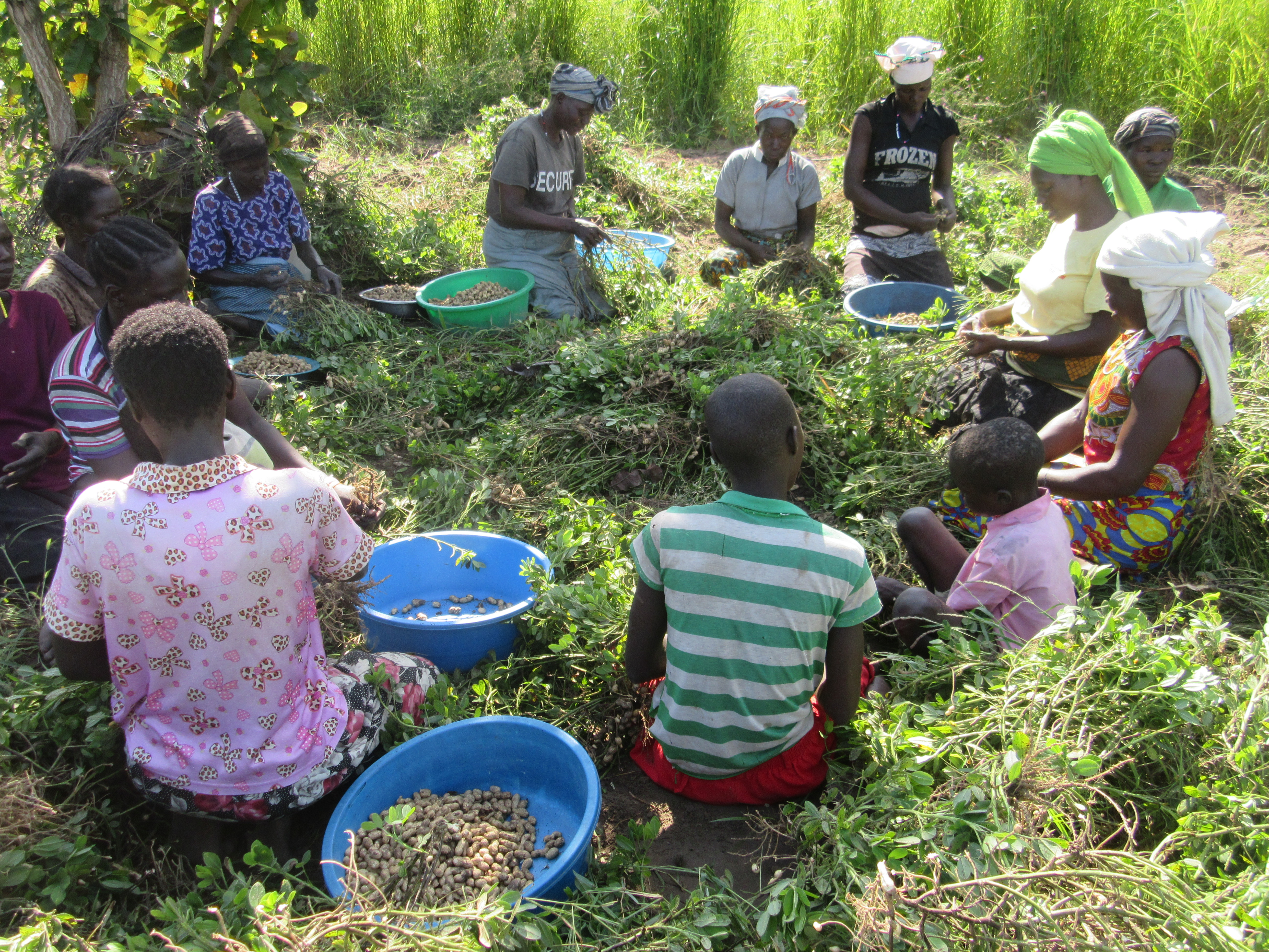 In traditional Lugbara society, work was done communally to fight food insecurity. In this photo, these women have embraced the joint production approach and are harvesting their groundnuts they planted as a group. This is an image of "African people at work" from Uganda